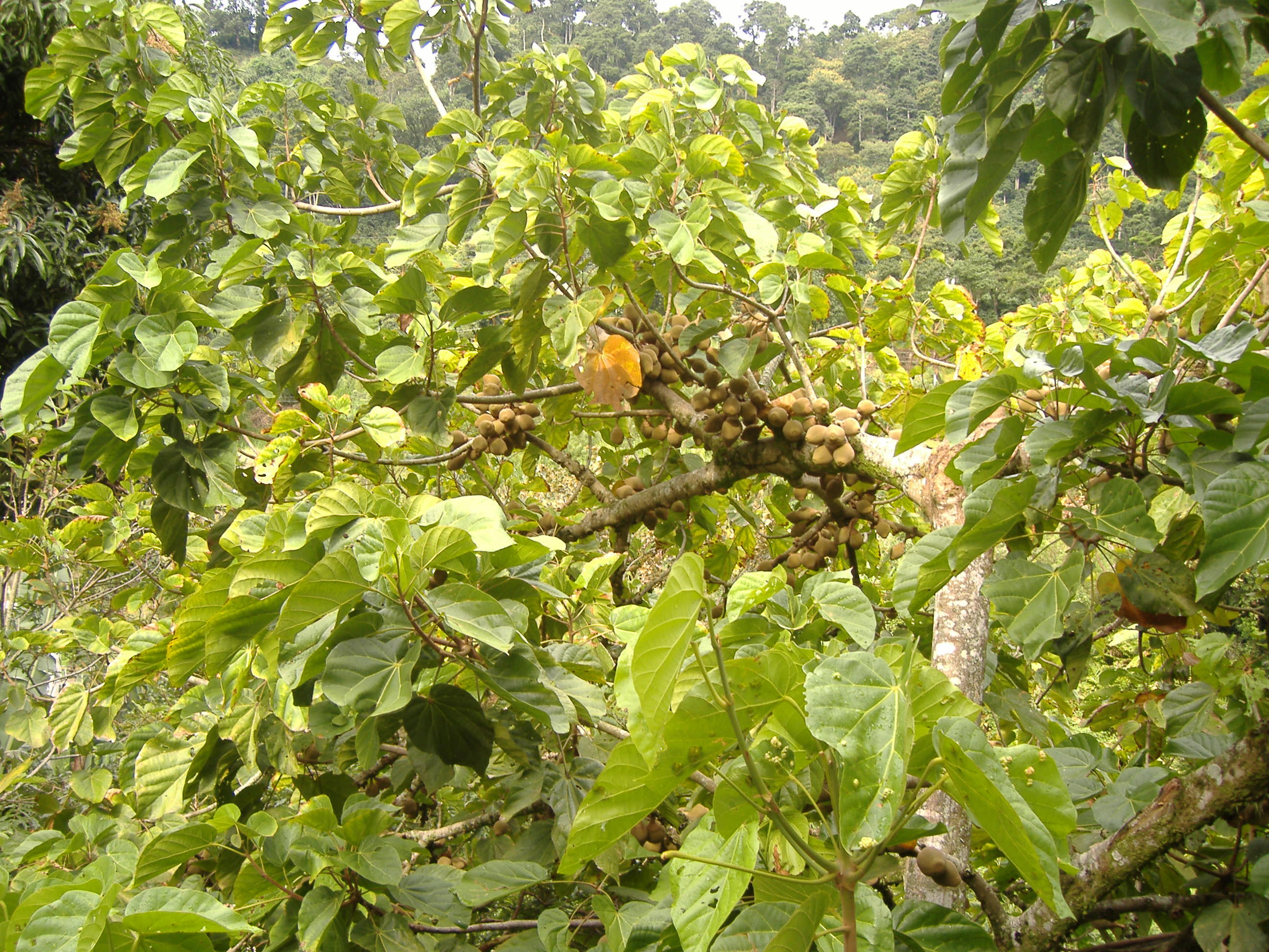 Gàidhlig: Measan zapote a' cinntinn air craobh ann am pàirc ann an Andes, baile beag ann an Antioquia, Coloimbia